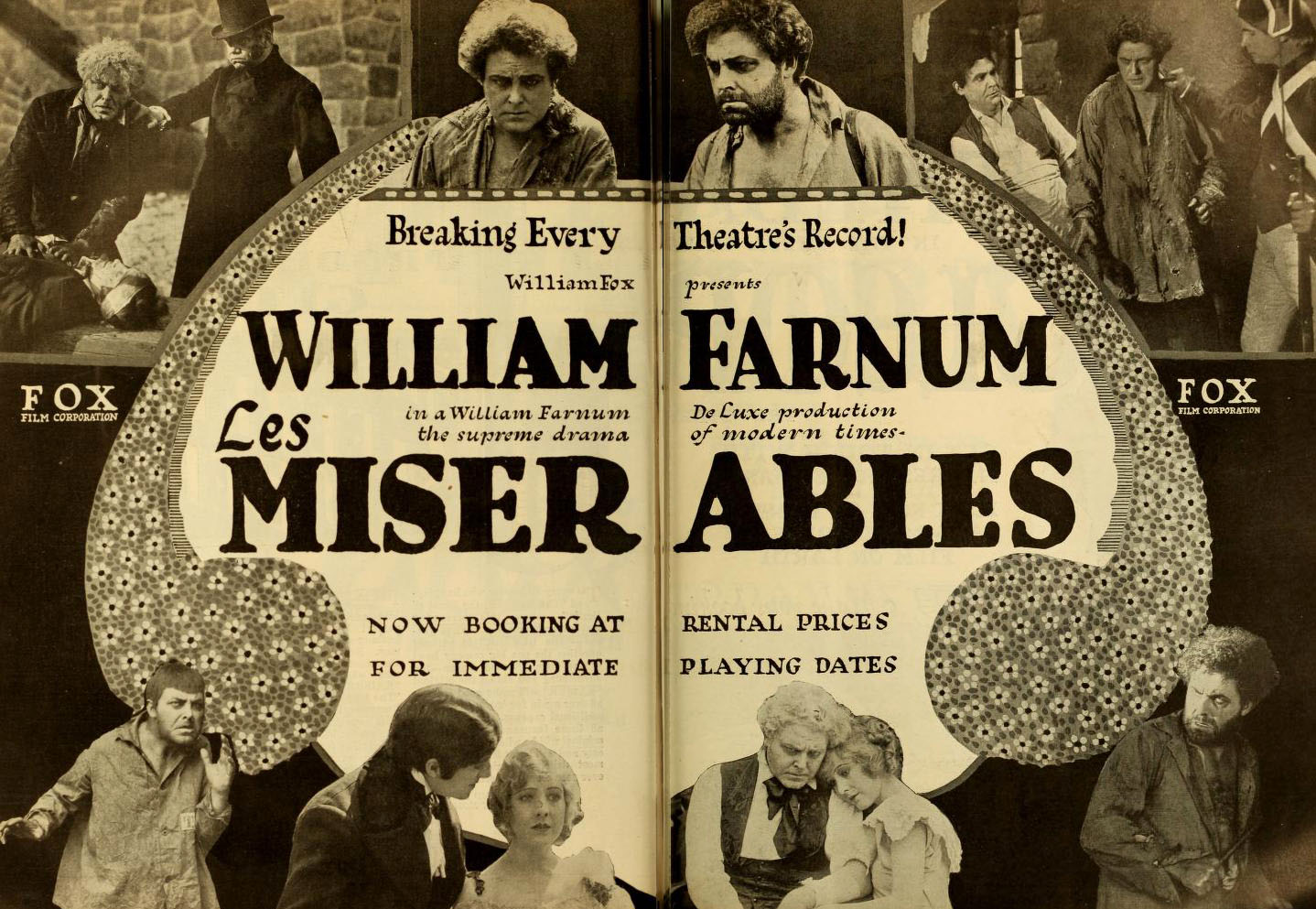 Advertisement in Moving Picture World, Jul 1918 for the American silent film Les Miserables (1917).